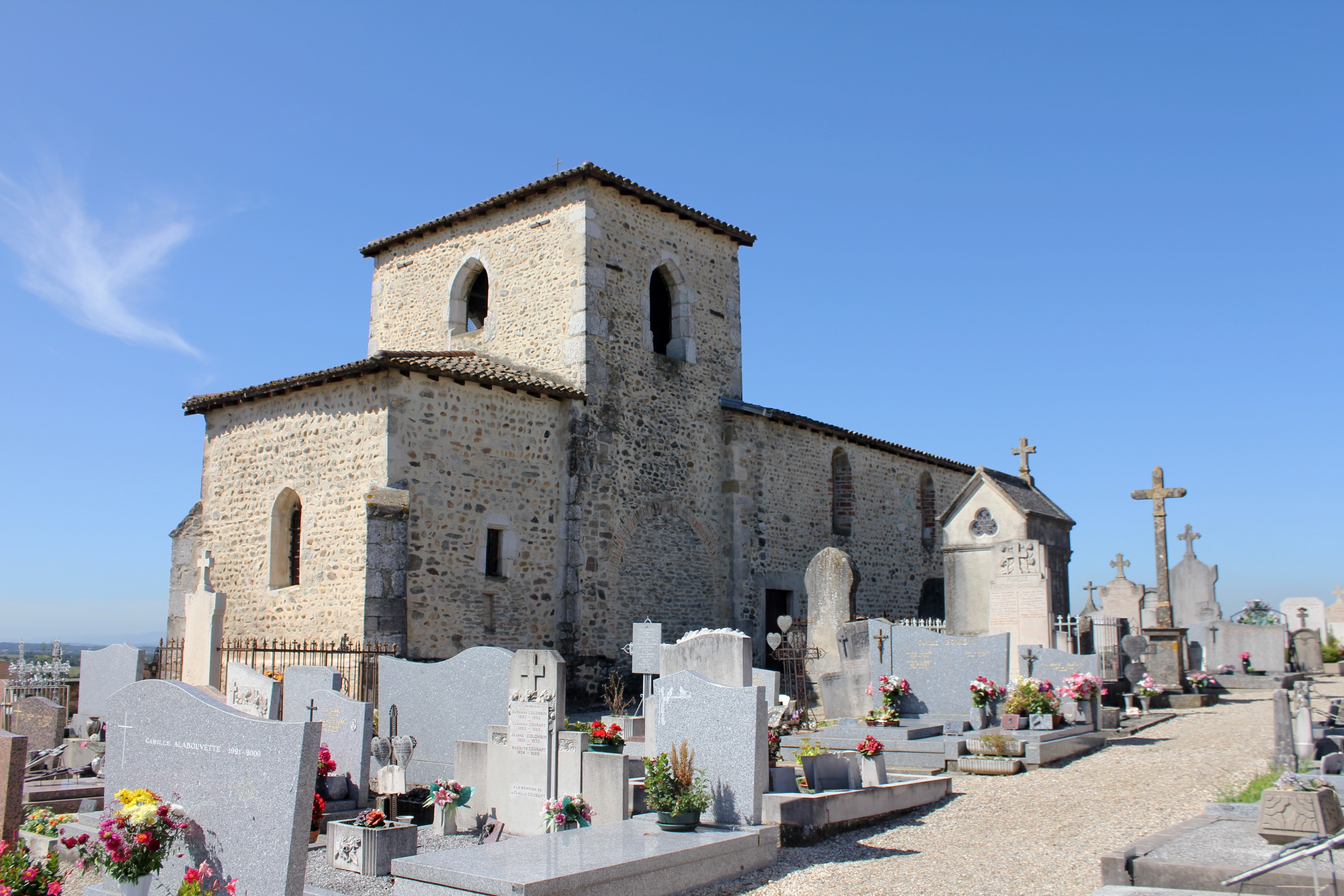 Old abbatial church of Moifond (Pusignan) - view from north-west